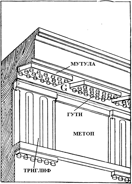 Mutulus and 3 rows of 6 gouttes under each of them in Doric cornice